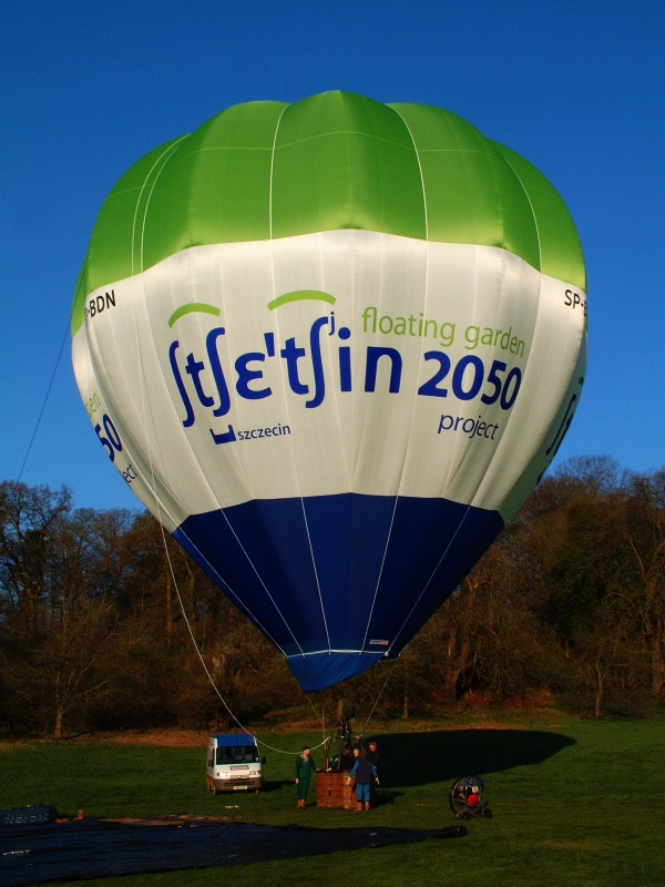 Hot air balloon from Szczecin, Poland.